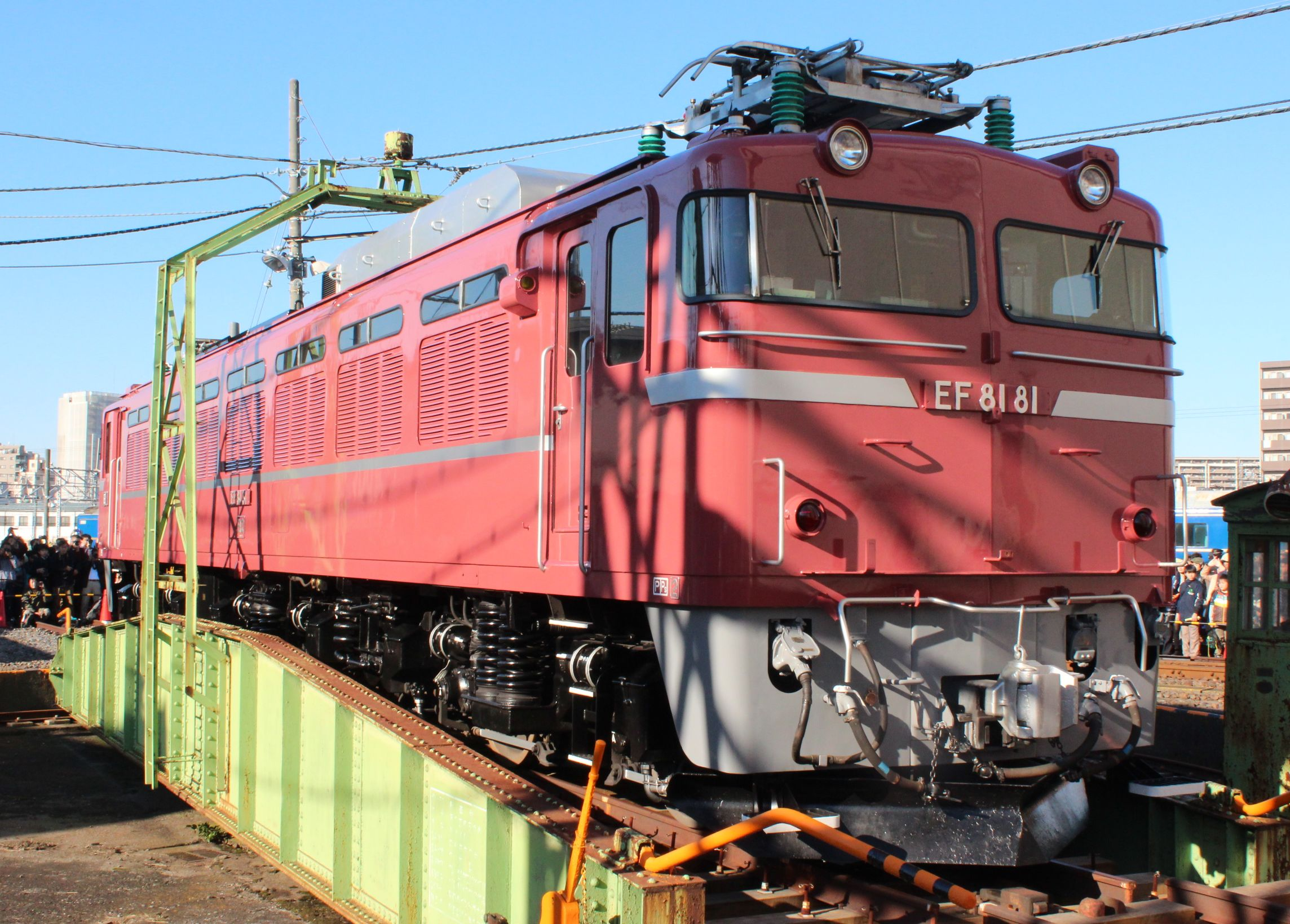 JR East Class EF81 electric locomotive EF81 81 at Oku Depot open day